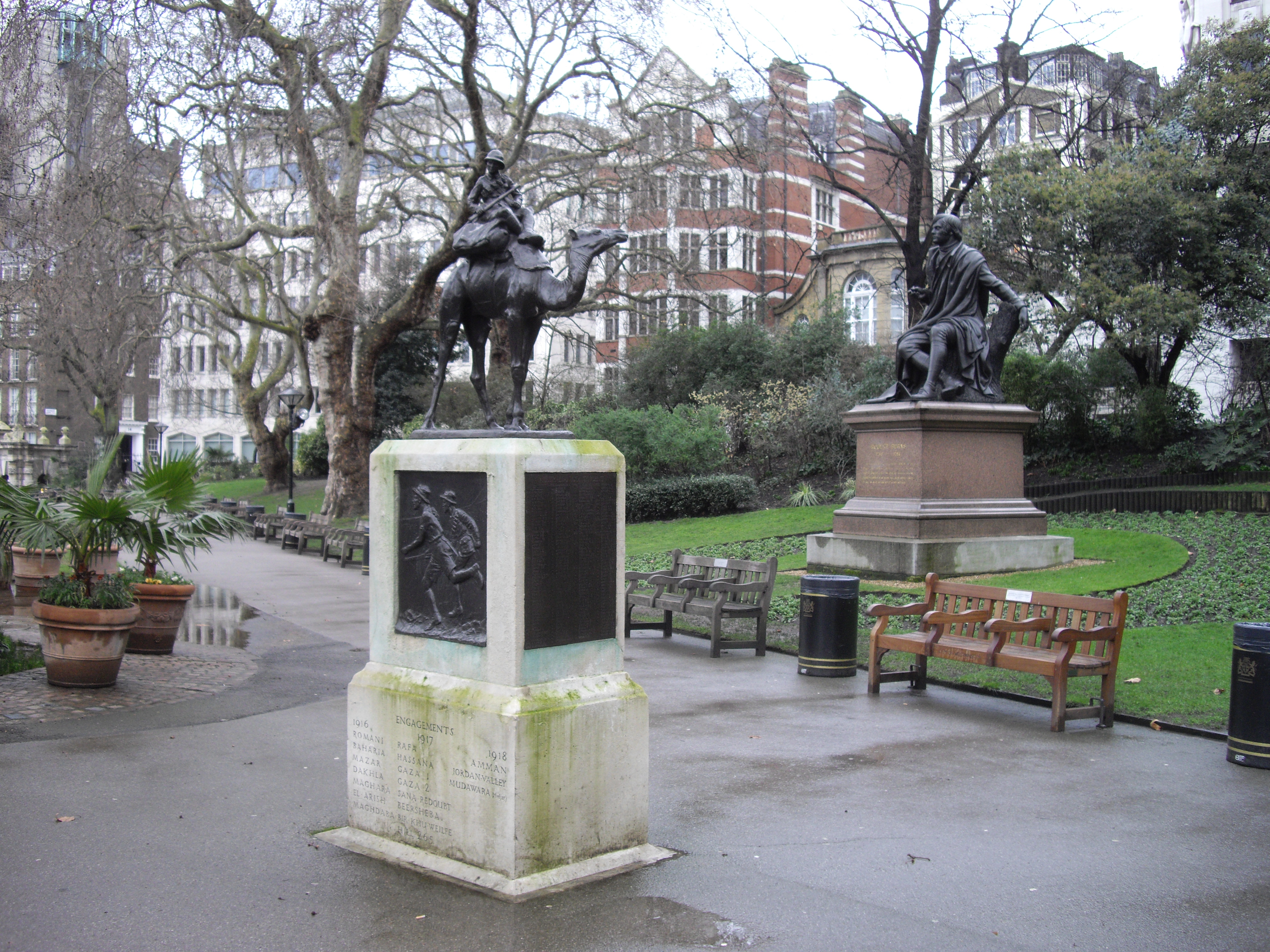 Statues in Victoria Embankment Gardens The camel is a memorial to The Imperial Camel Corps and the one at the rear of the picture is Robert Burns